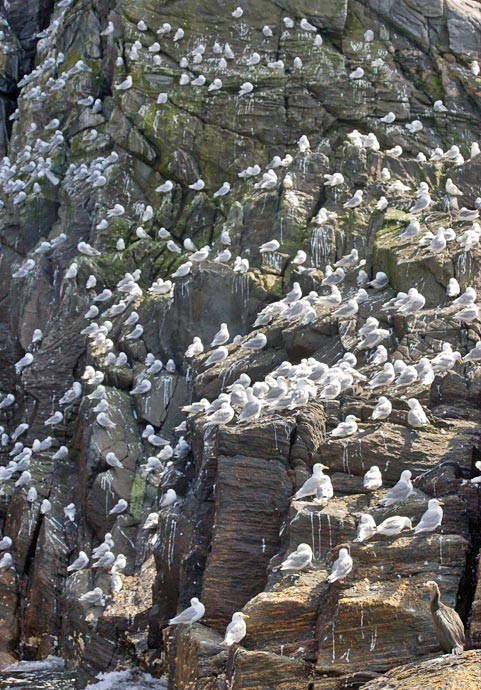 Kittiwakes (Rissa tridactyla) at the Norwegian bird-island Runde